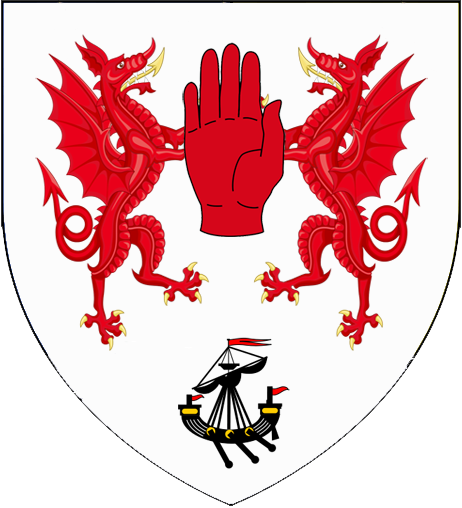 Coat of arms of the O'Flaherty.